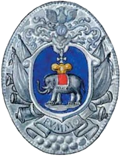 Russian medal adorned with Avraham Hannibal's coat of arms